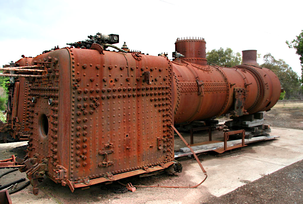 Victorian Railways J class boiler and firebox stored at the Seymour Railway Heritage Centre, Victoria, Australia